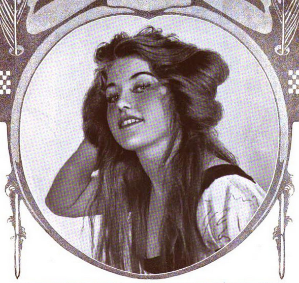 Photograph of actress and dancer Marjorie Bonner, appearing in the November 1908 issue of Cosmopolitan Magazine.